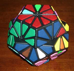 The Pyraminx Crystal, one layer in the middle of a turn.